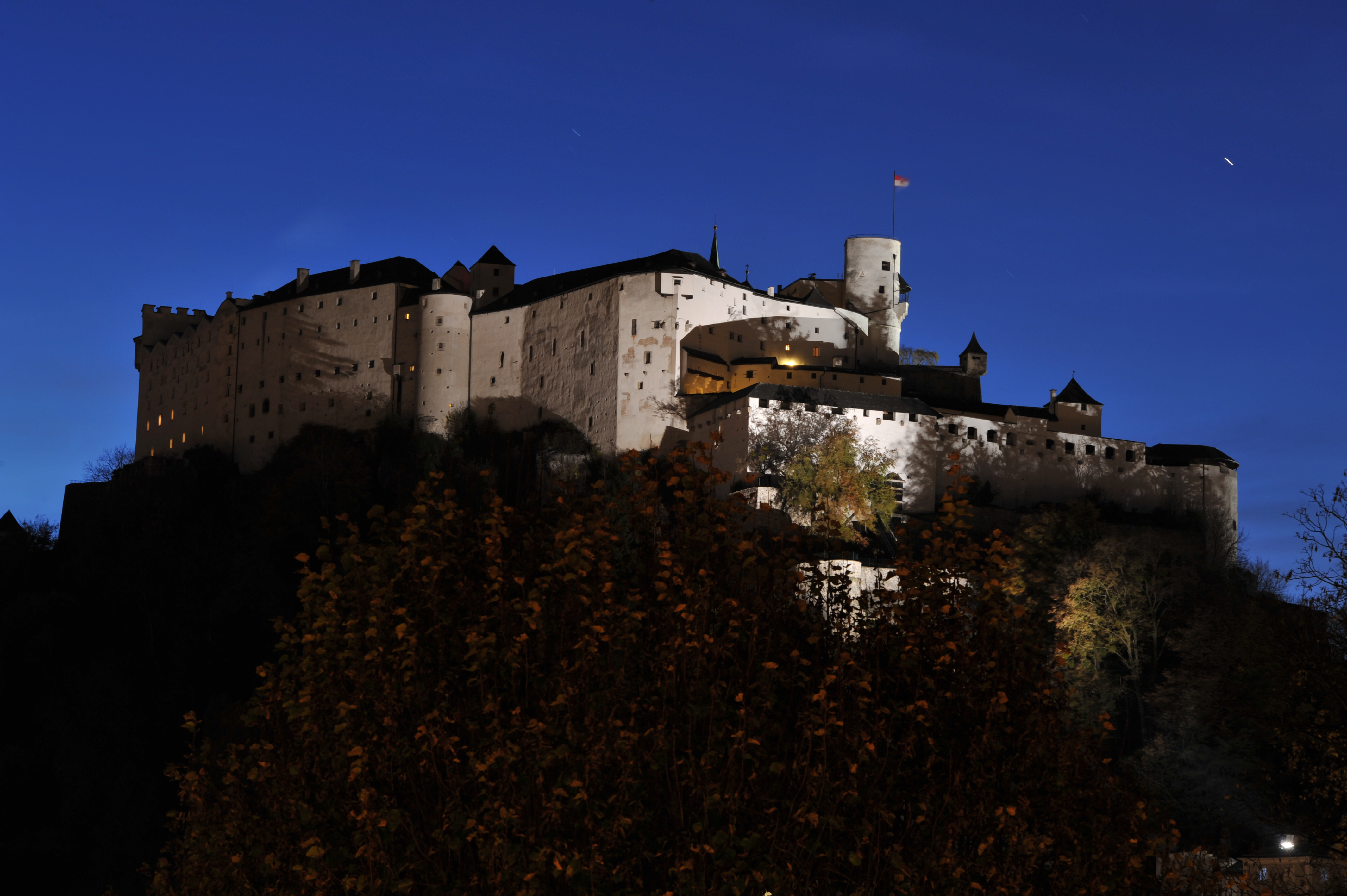 Castle Hohensalzburg in Salzburg, Austria